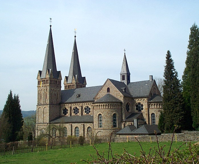 so-called Siegtaldom (Sieg valley cathedral) St. Laurentius in Dattenfeld, a locality of Windeck in the southern North Rhine-Westphalia.